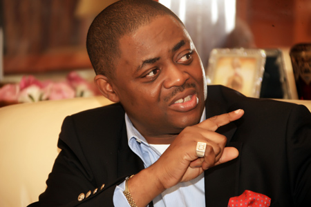 Photo of Chief Femi Fani-Kayode